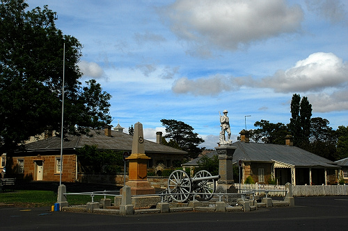 Ross town in Tasmania